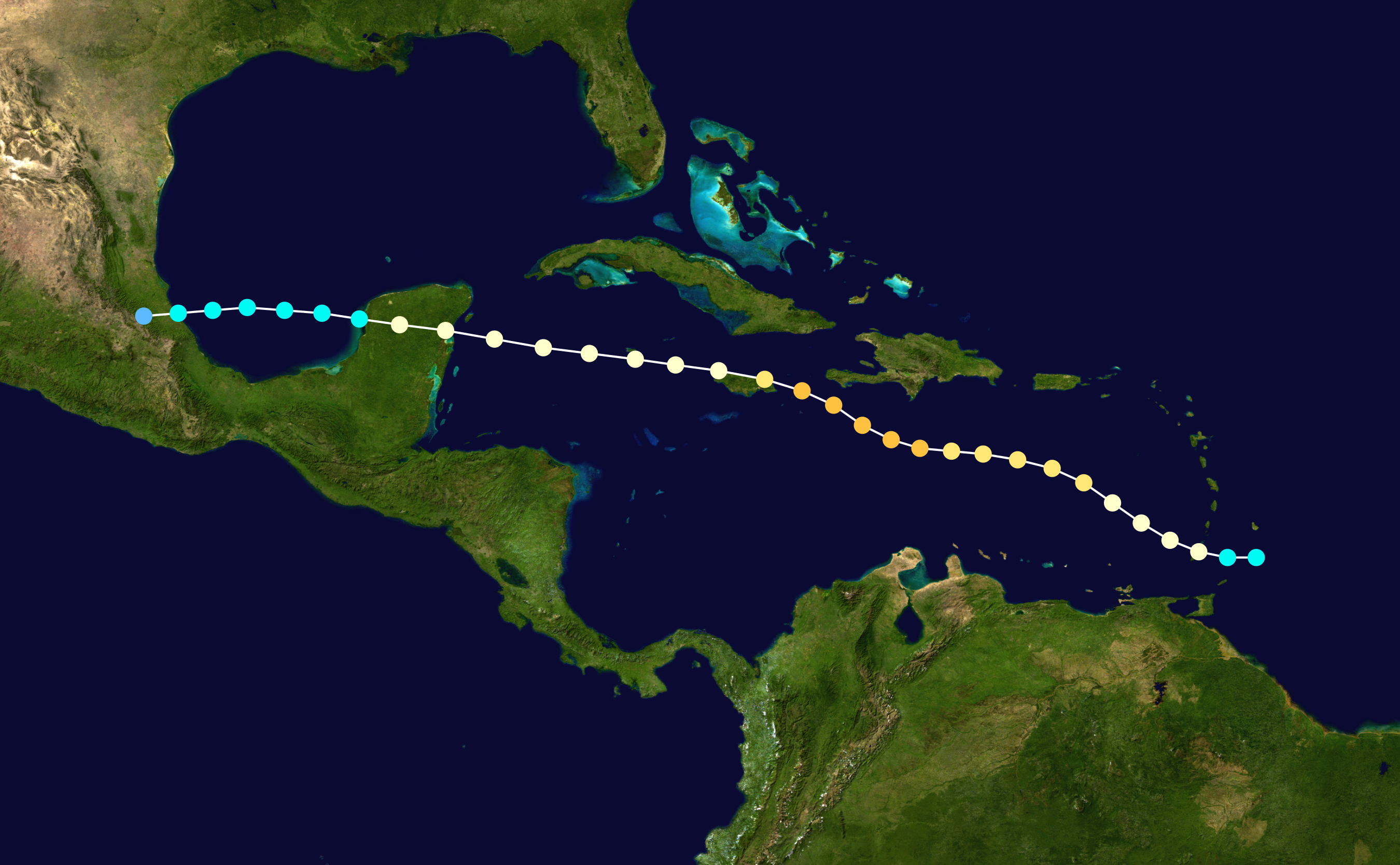 1944 Atlantic hurricane 4 track. Uses the color scheme from the Saffir-Simpson Hurricane Scale.